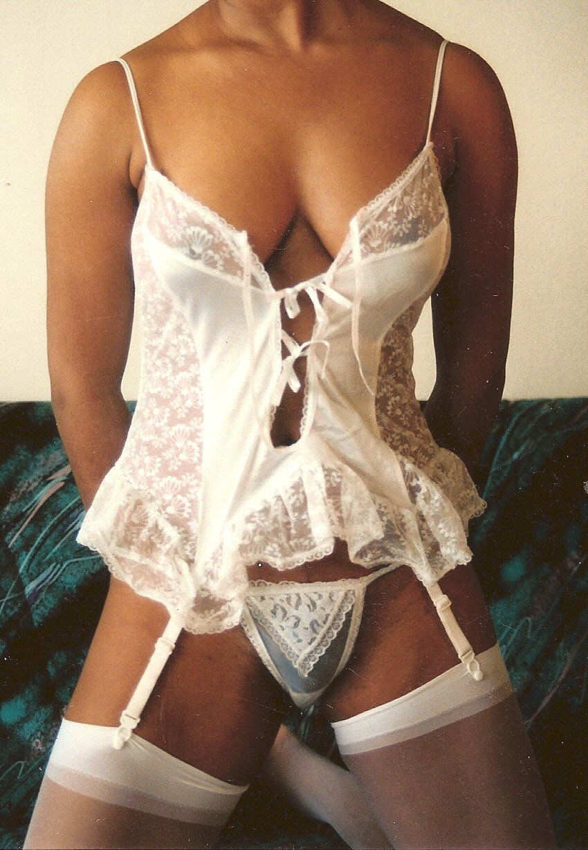 A white Guêpière